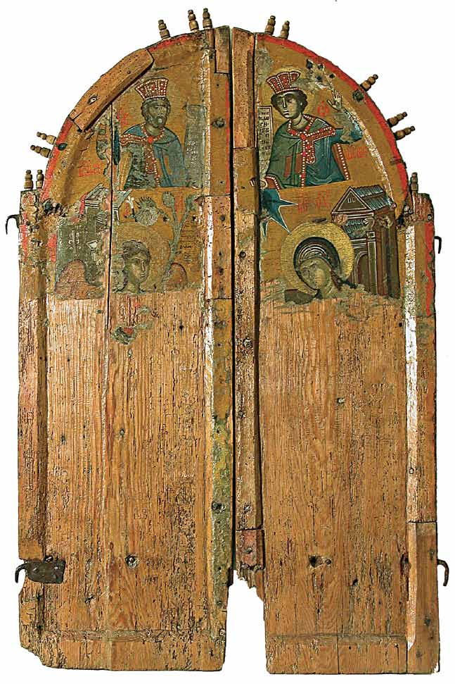 Royal Doors from Saint Nicholas Church in Shopsko Rudare, 1580 - 1581